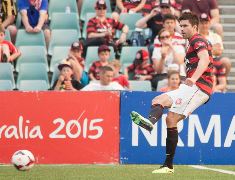 Michael Beauchamp, Wanderers Captain